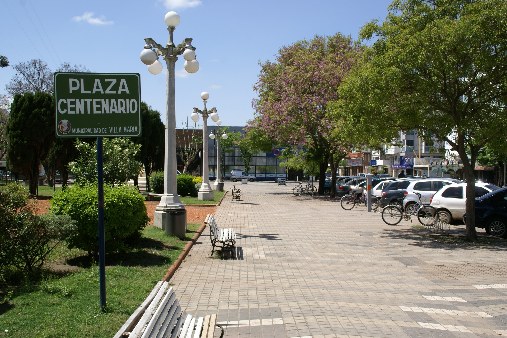 Plaza Centenario in Villa María, Provincia de Córdoba, Argentina